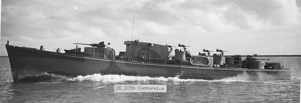 USS PGM-5 after her conversion from SC-1056.